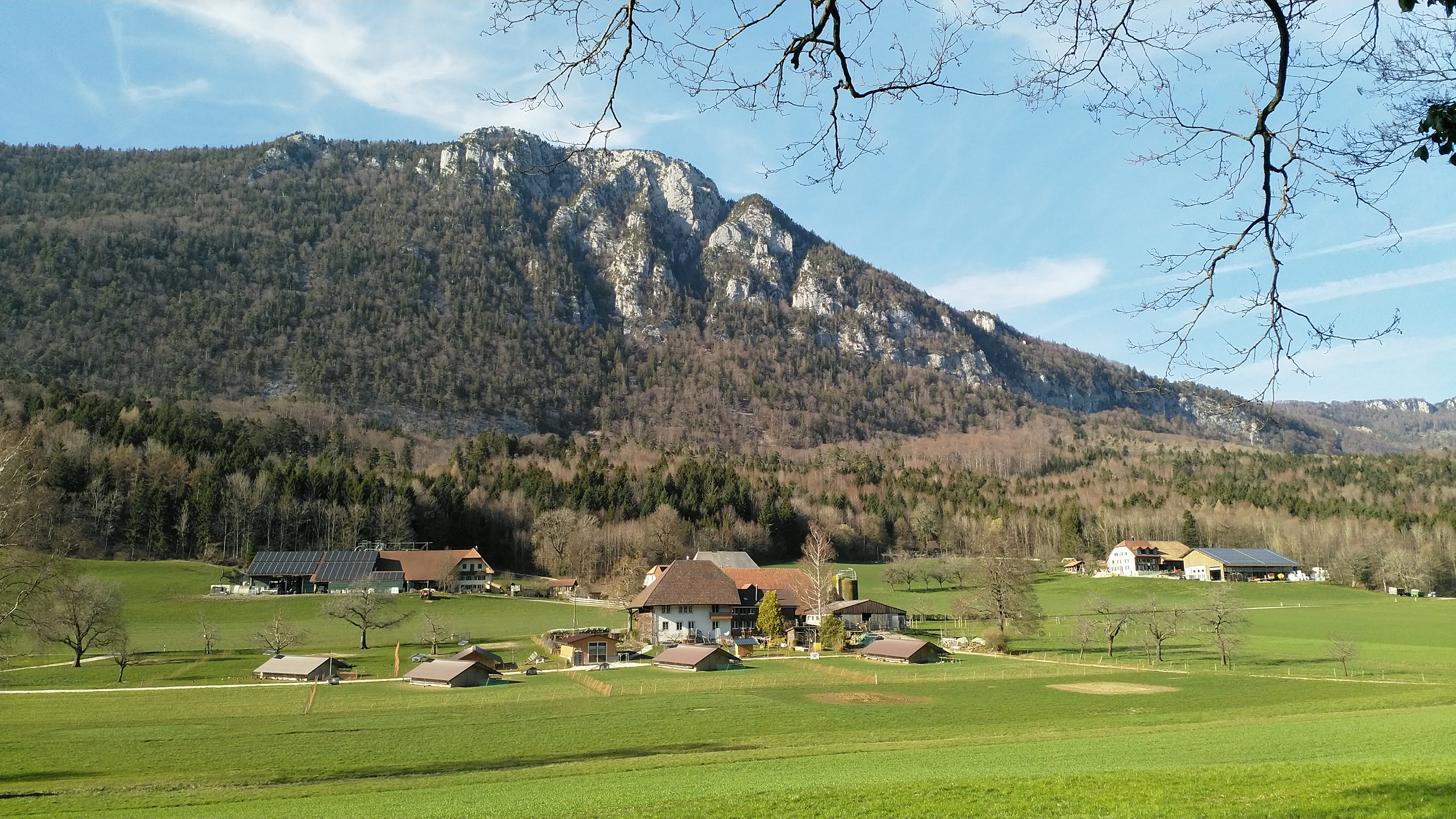 Rüttenen, canton of Solothurn, Switzerland: Galmis